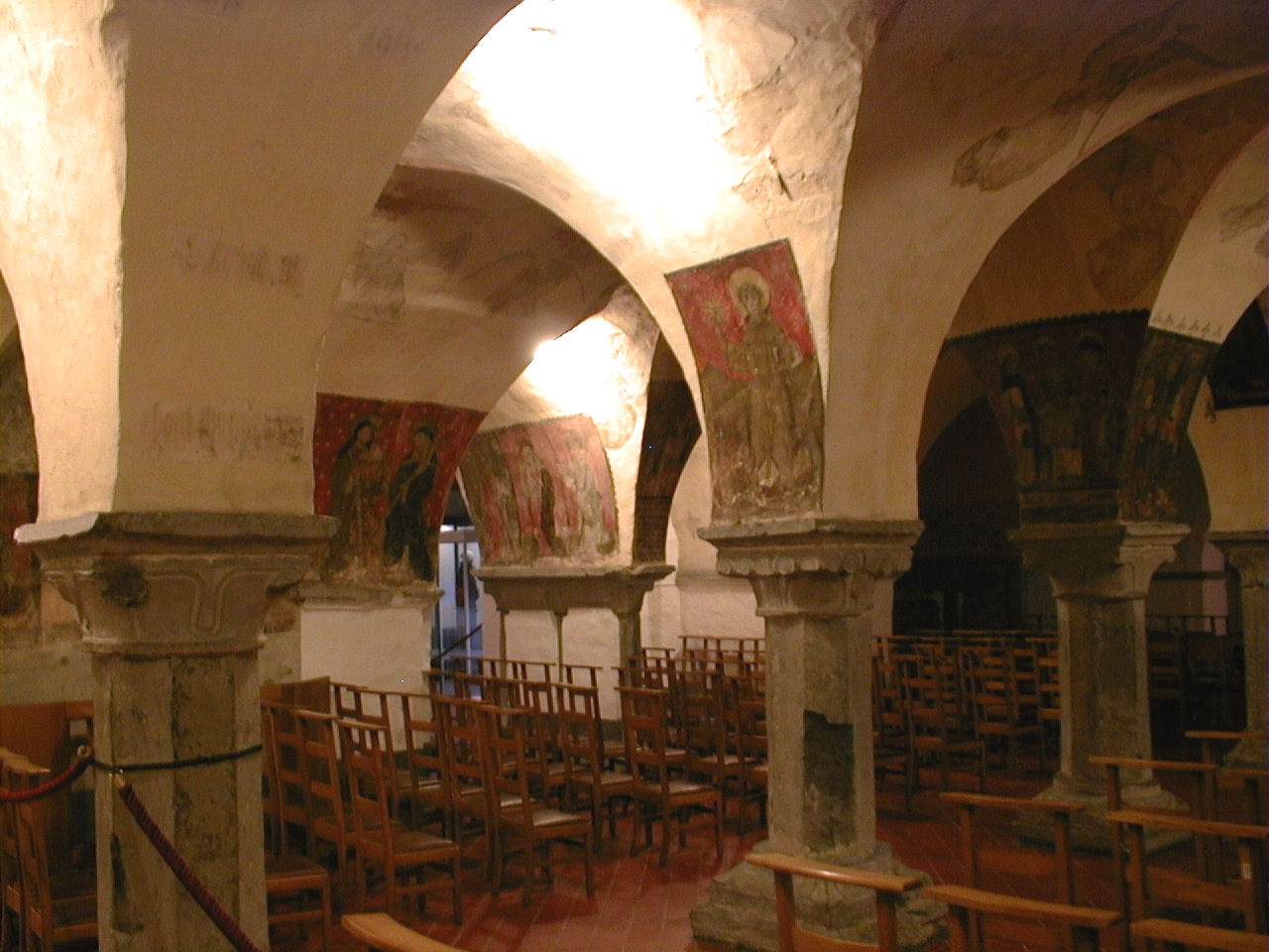 Crypt at Sint Baafskathedraal, Ghent, Belgium. eigen opname